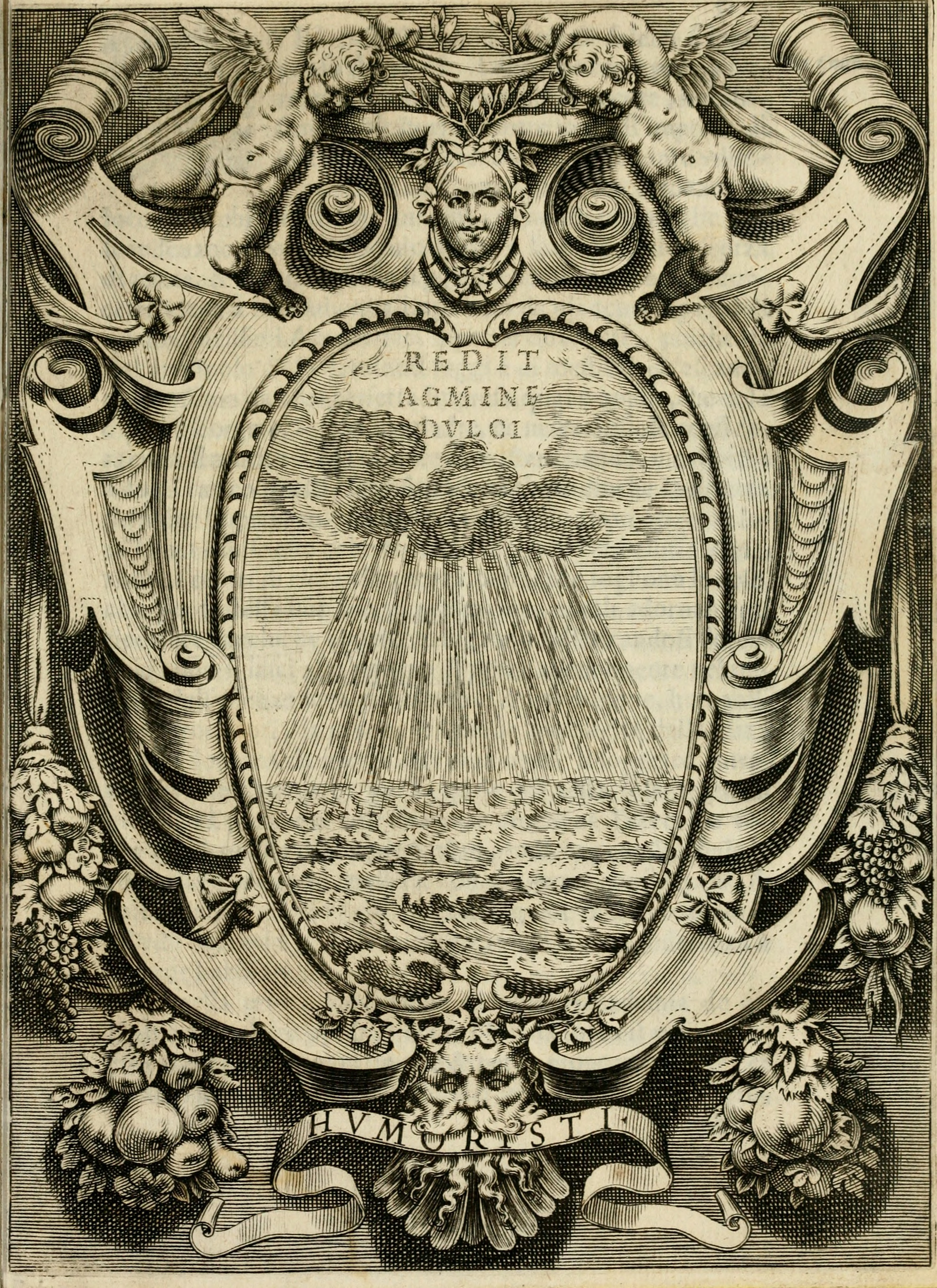 Title: Sopra l'impresa de gli accademici Humoristi : discorso Year: 1611 (1610s) Authors: Aleandro, Girolamo, 1480-1542 Accademia degli Humoristy (Rome, Italy) Subjects: Emblems Publisher: In Roma : Appresso Giacomo Mascardi, ad instanza di Lorenzo Sforzini ... Text Appearing Before Image: IN ROMA, ApprefTo Giacomo Malcardi. M . D C X T. CON LICENZA D E S V PE RI OKI. %Ad ìnJianTa di Lormlo Sforzini allArco di Camiglia7;o. Imprimatur fi videhitur l^uerendij/lmo P. Magijlro SacriPalatij Apoft olici. Caefar FideJis Vicefg. E Co Fr. Gregorius Donatus,Ord.Pra;d. CoIIegij Rom.S.Tho-maj.Aquinatis publicus Philofophiar profefTorjCx commifsio-ne Reuerendifsimi P. Fr. Ludouici Yftella Sacri Palatij Apoft.Magiftri, Opufculum hoc D. Hieronymi Aleandri fuper Sym-bolum inclita Humoriftarum Academi^e diligenter perlegi, acinueni illud non modo fanar, Catholicxq. doftrina; confonuin ,veriim edam dignum, quod ab omnibus legatur. Quarc illiid.approboi ac ty^is mandandum cenfeo. In quorum fidem hasmanu mea fubfcriptas dedi. Romas die 27. lunij 1611. Fr. Gregorius Donatus qui fupra. Imprimatur. Fr. Thomas PalJauicinus Bonon. Magiftcr, &Reuerendiffimi P.Fr. Ludouici YfteJJa Sacri Palatij Apo-Aolici Magiari Socius^ Ordinis Prasd. Text Appearing After Image: '